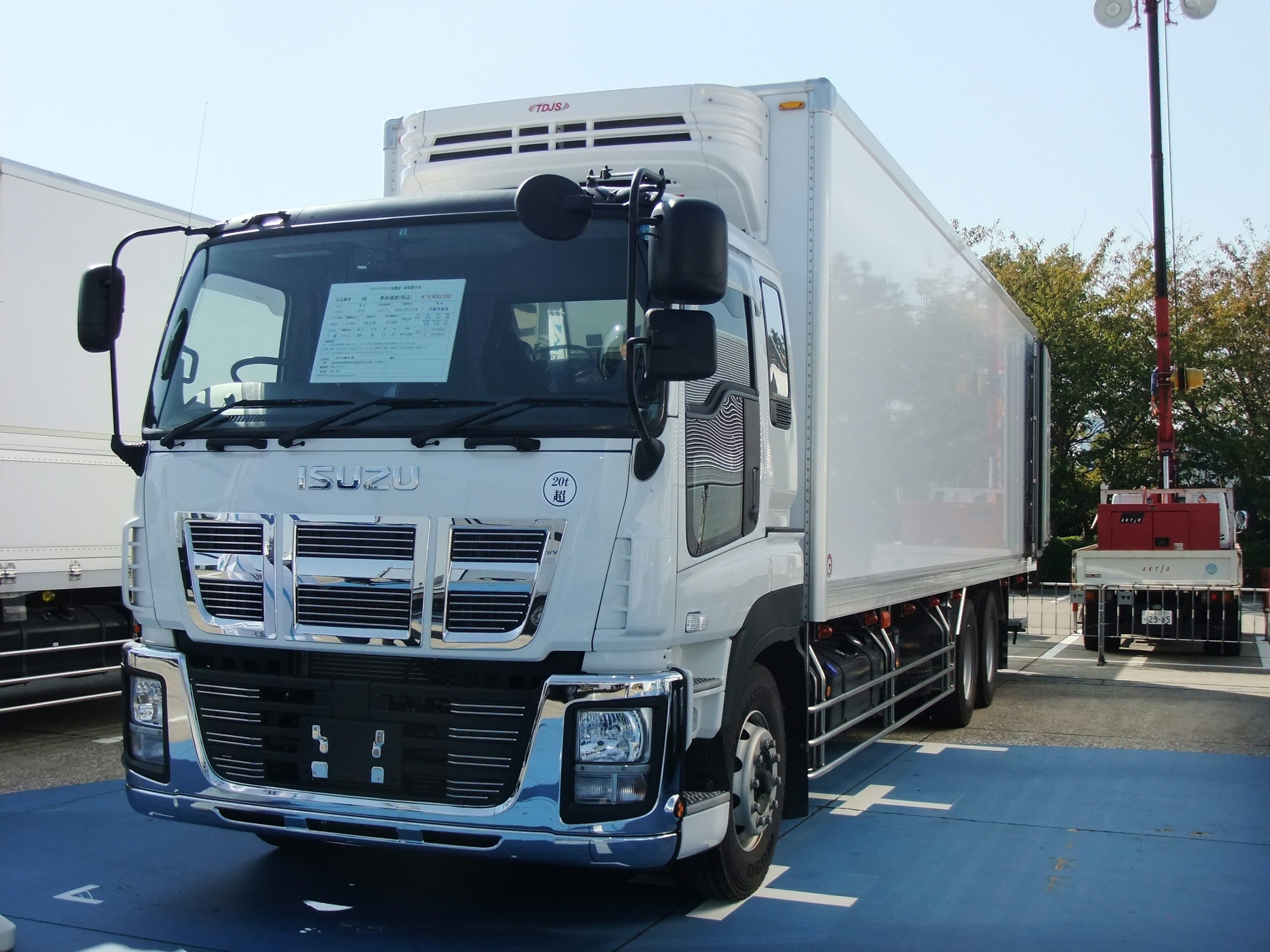 ISUZU, C-Series / GIGA, Full-cab Refrigerated Cargo truck, Model Number LKG-CYL77A, （There are a country and a region sold as C-series excluding a Japanese market, too.）